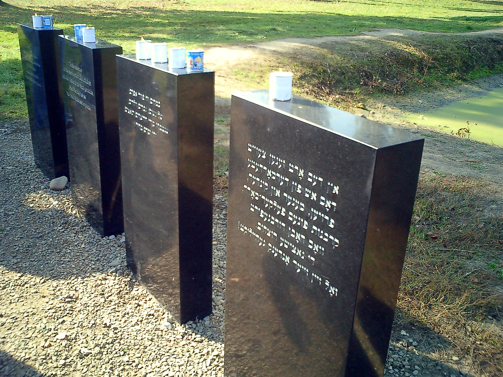 monuments in Auschwitz: "In this place the ash of women, men & children who were slaughtered by the Nazi murderers! They shall rest in peace"